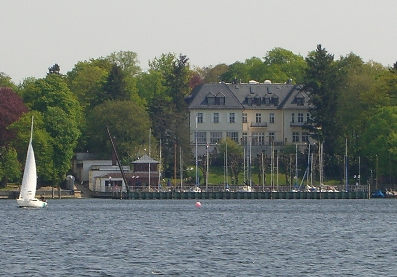 Mansion of American Academy in Berlin (in the centre of the picture). View from "Großer Wannsee".